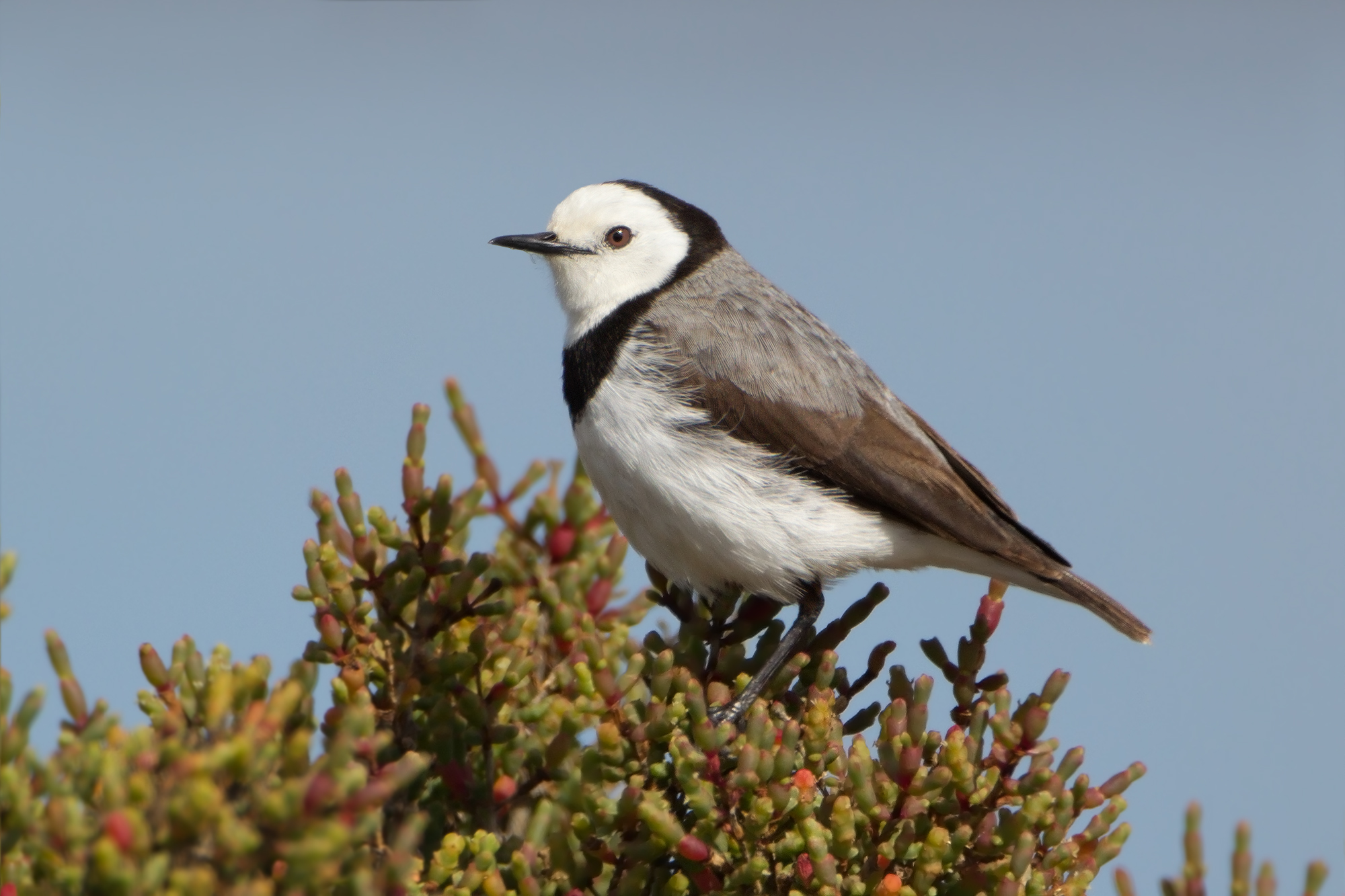 White-fronted Chat (Epthianura albifrons) male, Orielton Lagoon, Tasmania, Australia